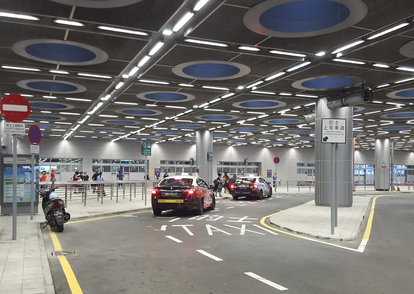 Taxi Stand in Taipa Ferry Terminal